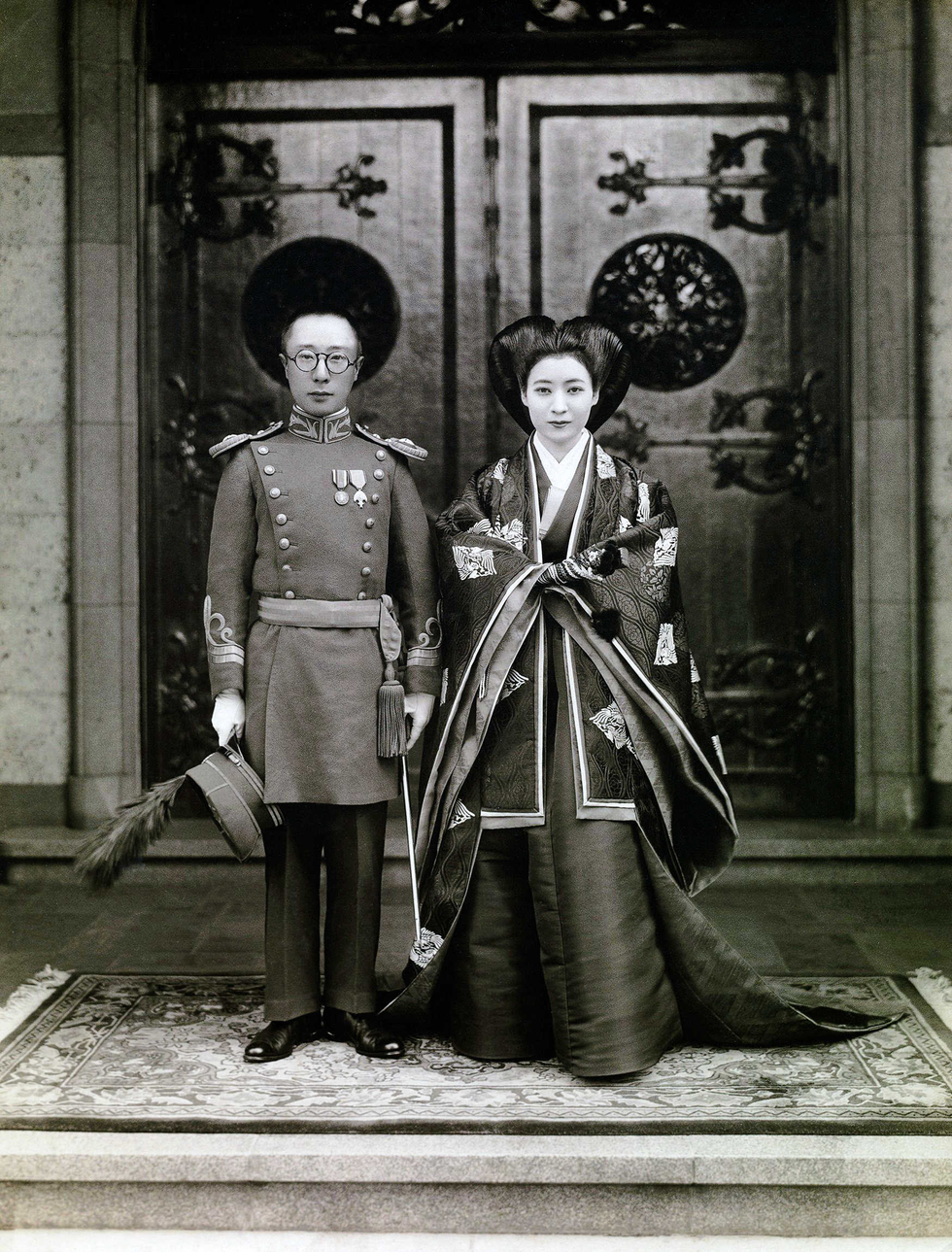 Prince Aisin-Gioro Pǔjié (1907–1994) and Lady Hiro Saga (1914–1987) 1937 wedding photo